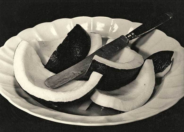 Cocosnuss